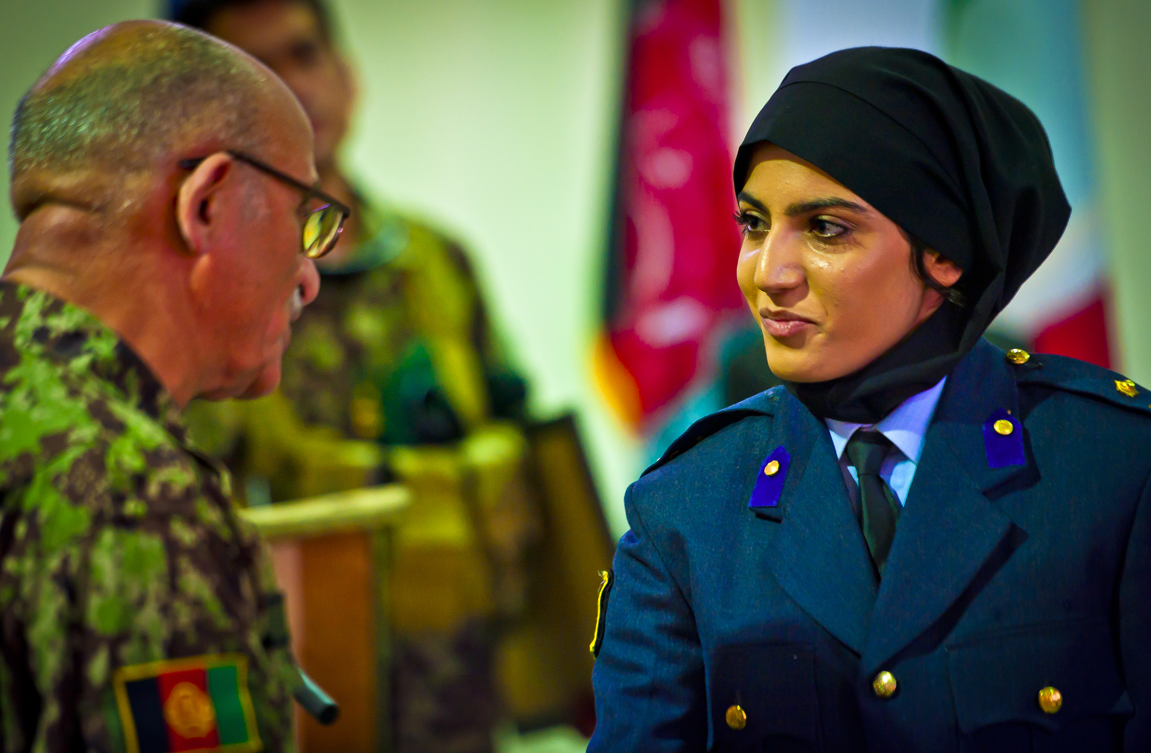 Afghan air force 2nd Lt. Niloofar Rhmani accepts her pilot wings at a ceremony May 14, 2013, at Shindand Air Base, Afghanistan, as she graduates undergraduate pilot training. Rhmani made history May 14, 2013, when she became the first female to successfully complete undergraduate pilot training and earn the status of pilot in more than 30 years. She will continue her service as she joins the Kabul Air Wing as a Cessna 208 pilot. (Photo ID: 935182)